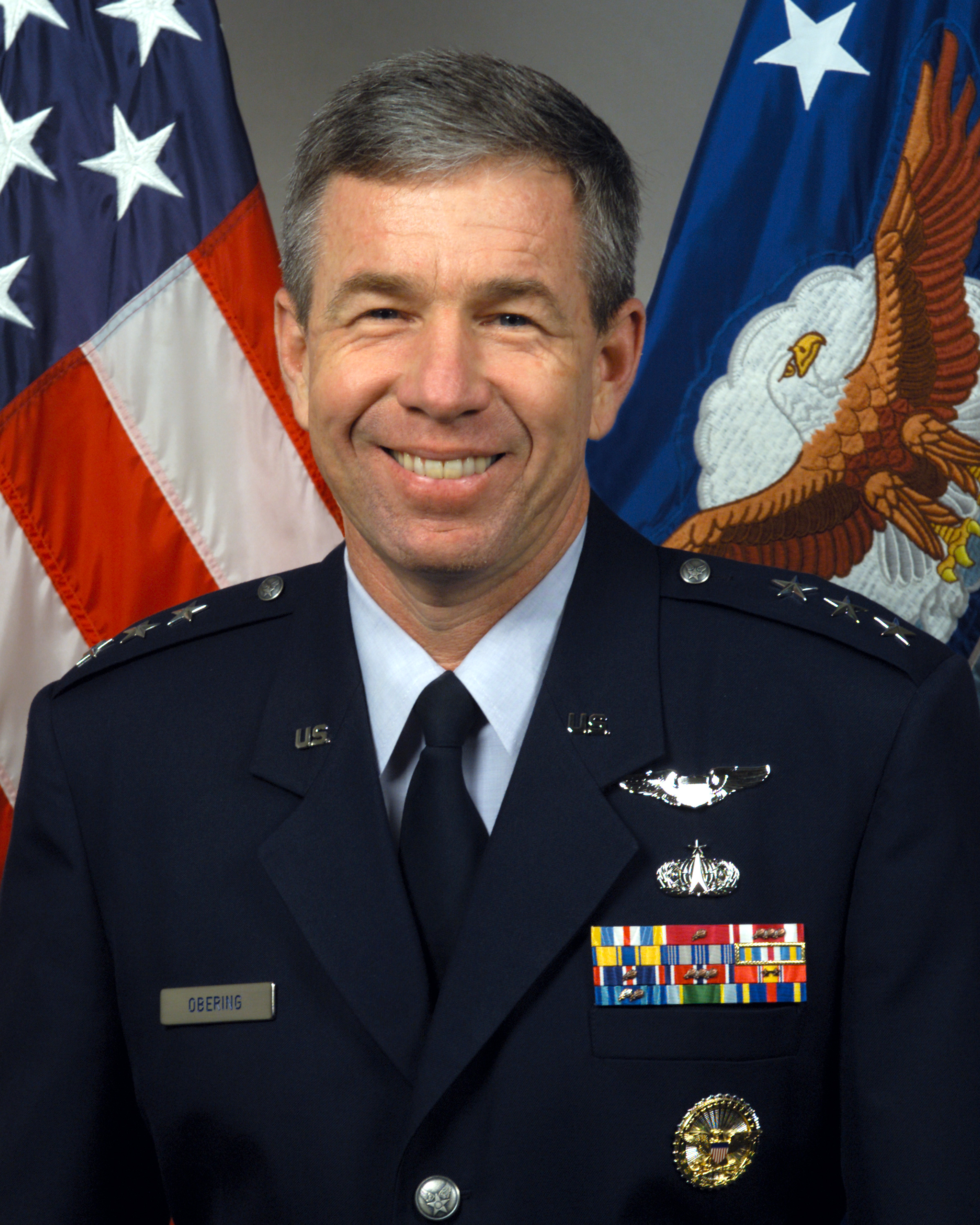 Director Missile Defense Agency Lt. Gen. Henry A. Obering III. U.S. Air Force photo.